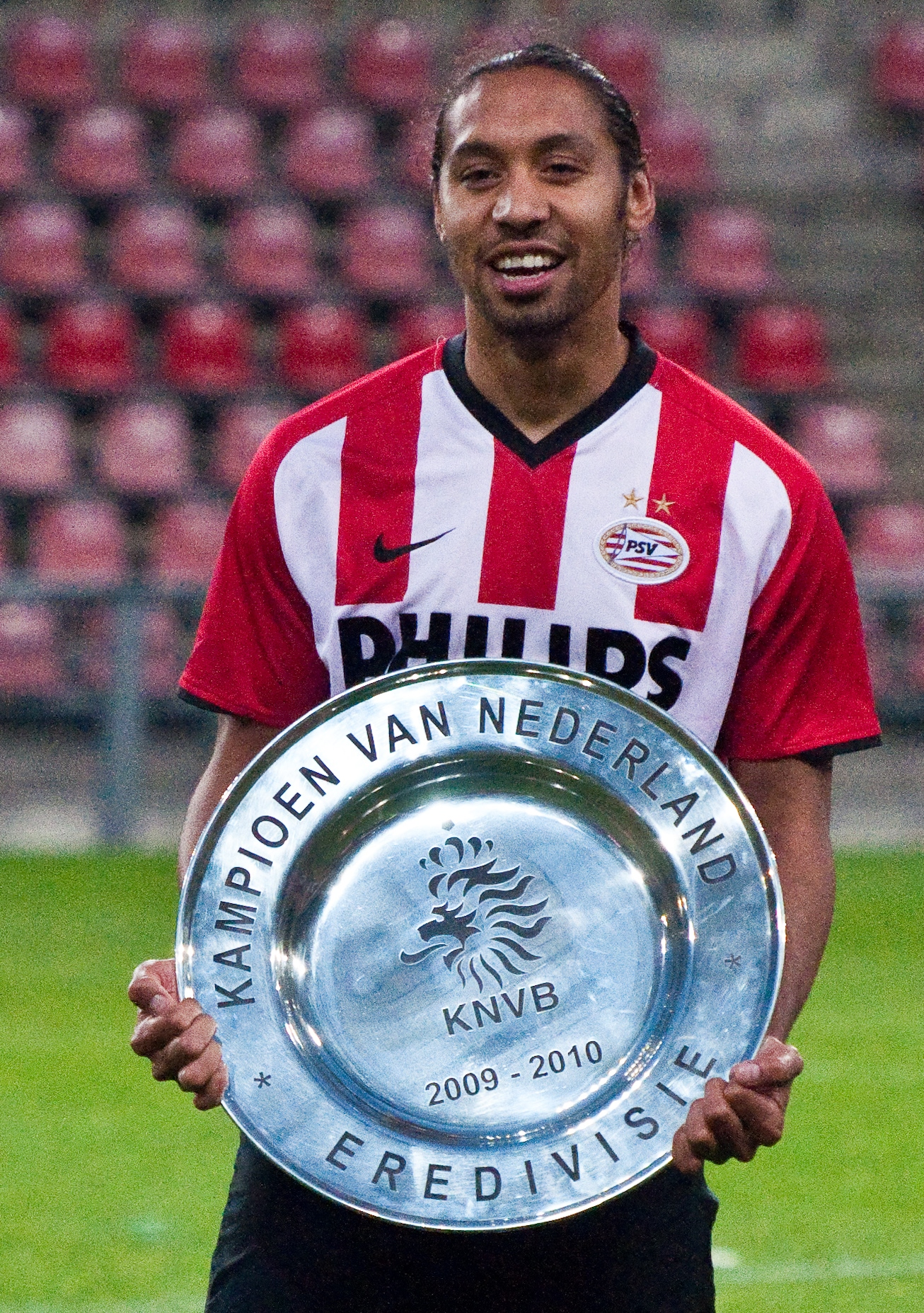 Steve Olfers after the match PSV U-23–Willem II U-23 (4-0) on 3 May 2010, in which Jong PSV took the Beloften Eredivisie title.